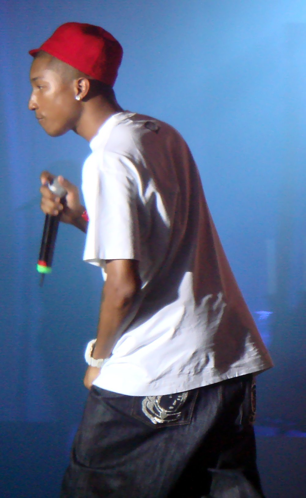 Pharrell Williams performing at the Nokia Theater in Times Square